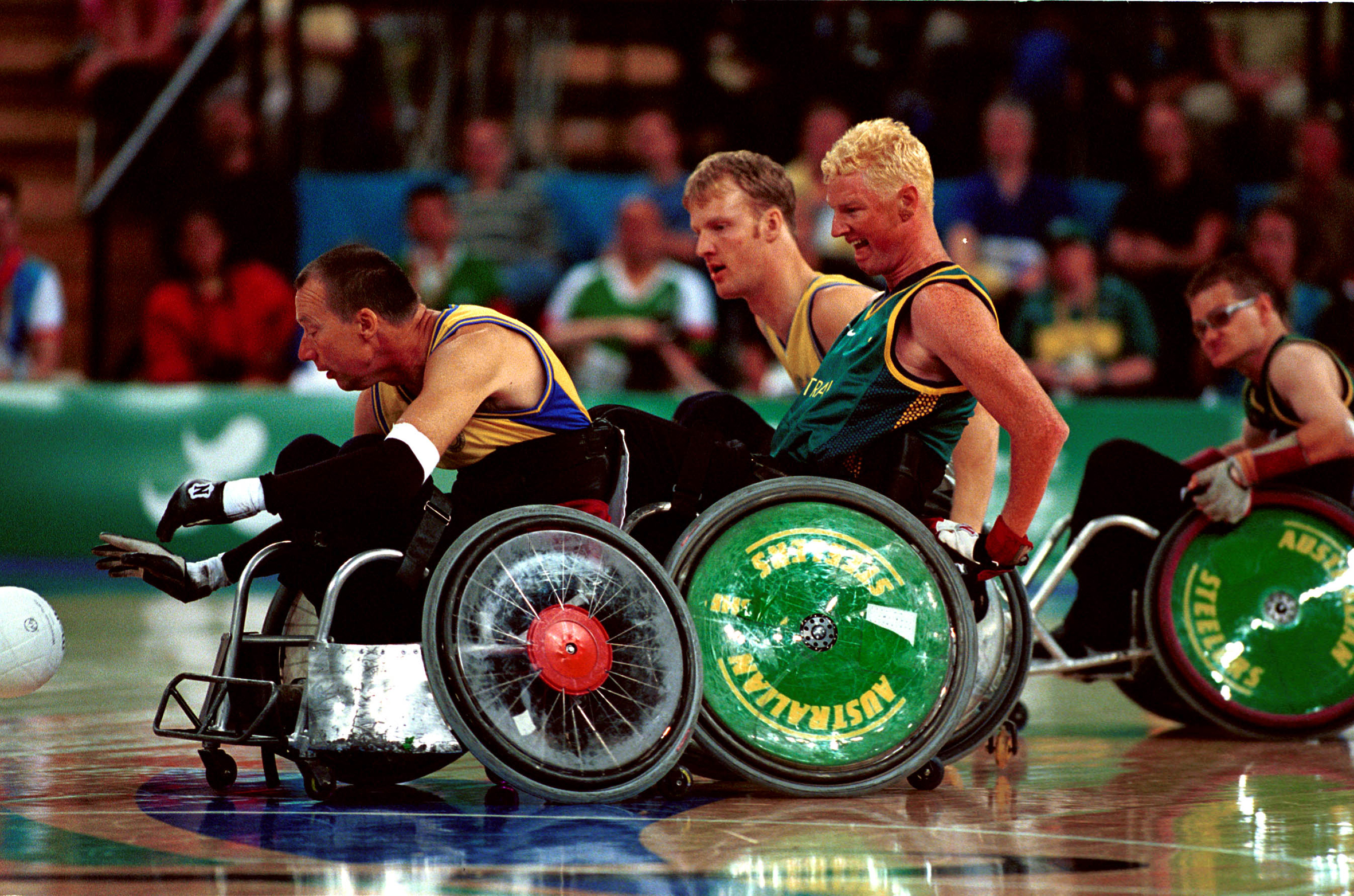 Australian wheelchair rugby "Steelers" player Brad Dubberley attacks during their match against Sweden at the 2000 Sydney Paralympic Games